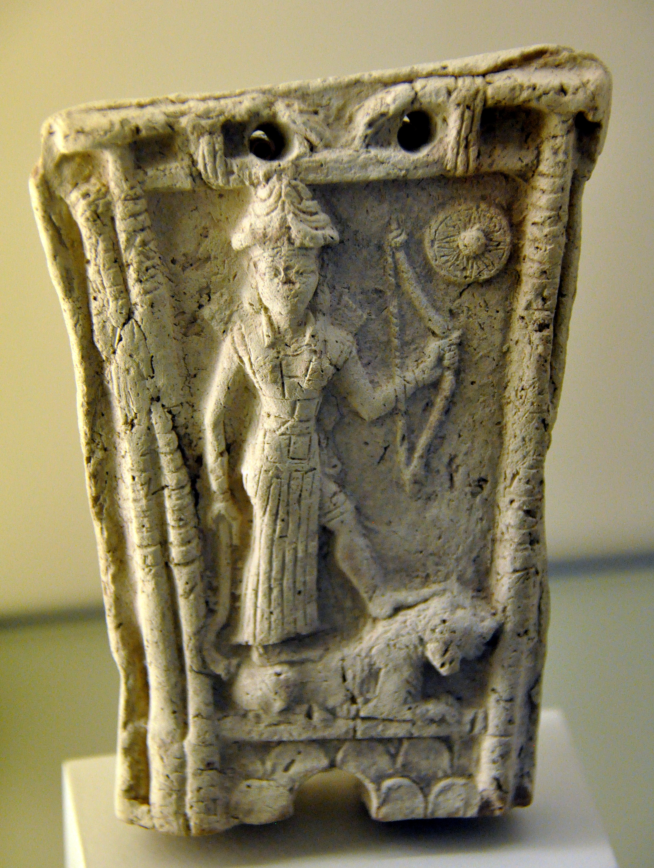 Goddess Ishtar (Inanna) stands on the back of an animal (probably a lion). She holds a bow with her left hand while the right hand grasps what appears to be a crook or a sickle-like object. The symbol of the god Shamash (Utu) can be seen at the upper right corner. The scene seems to sit on the top of a mountainous area. Old-Babylonian period, 19ht to 17th century BC. From Southern Mesopotamia, Iraq. The Pergamon Museum, Berlin, Germany.